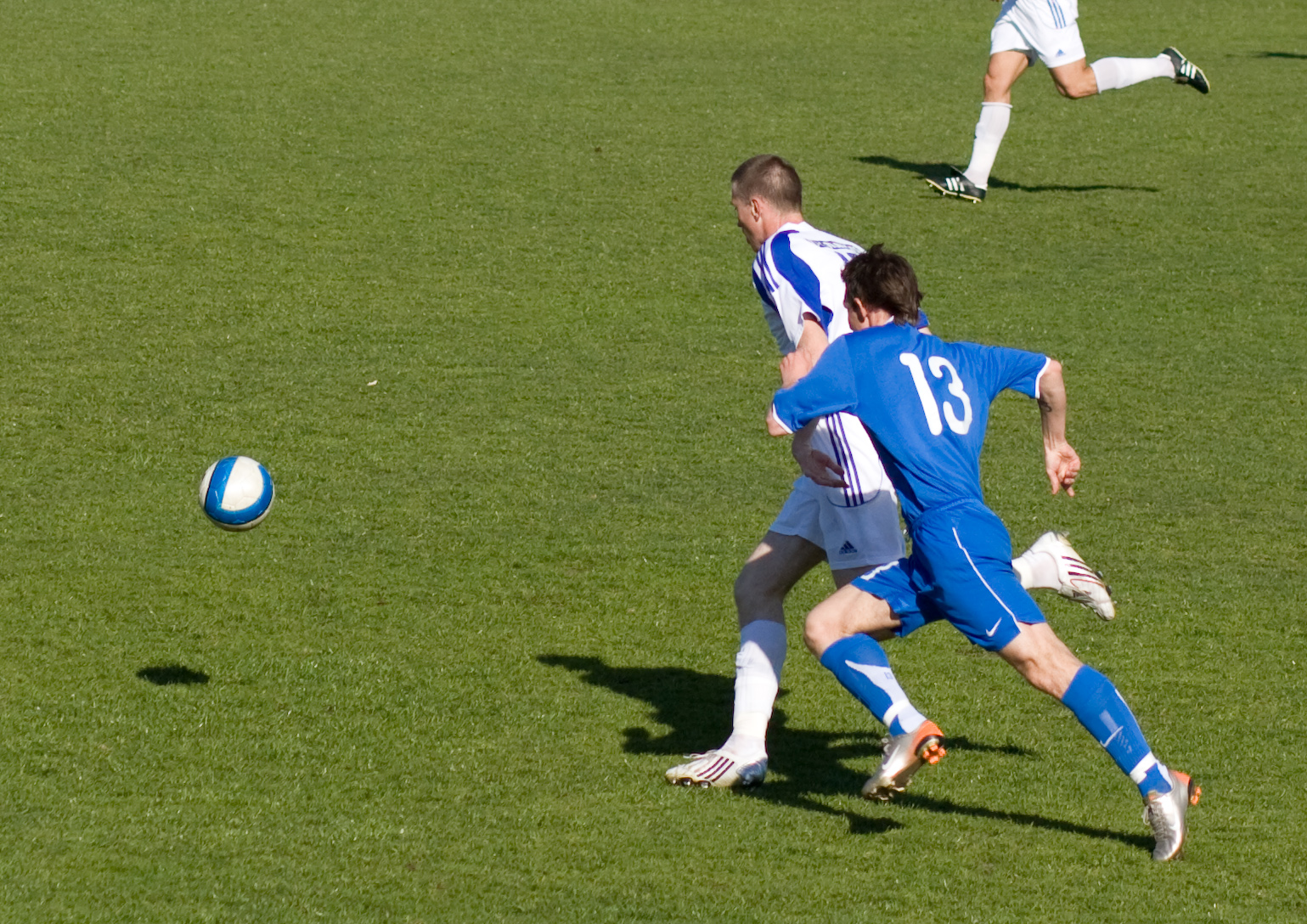 Latvian Virslīga football match, #13 Andrejs Agafonovs breaking on attack